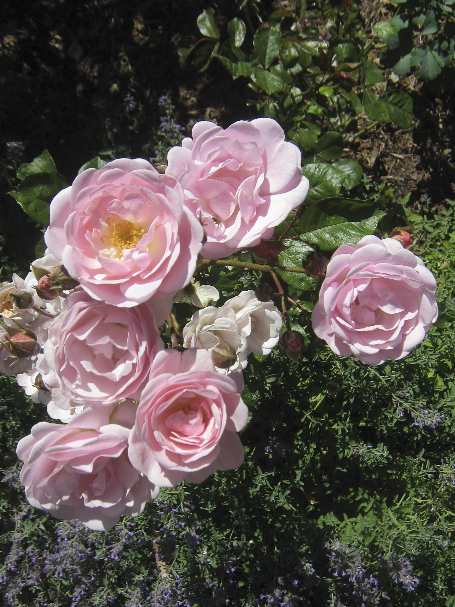 Rose 'Australia Felix' Hybrid Tea by Alister Clark 1919; photographed in the Alister Clark Memorial Rose Garden, Bulla, Victoria